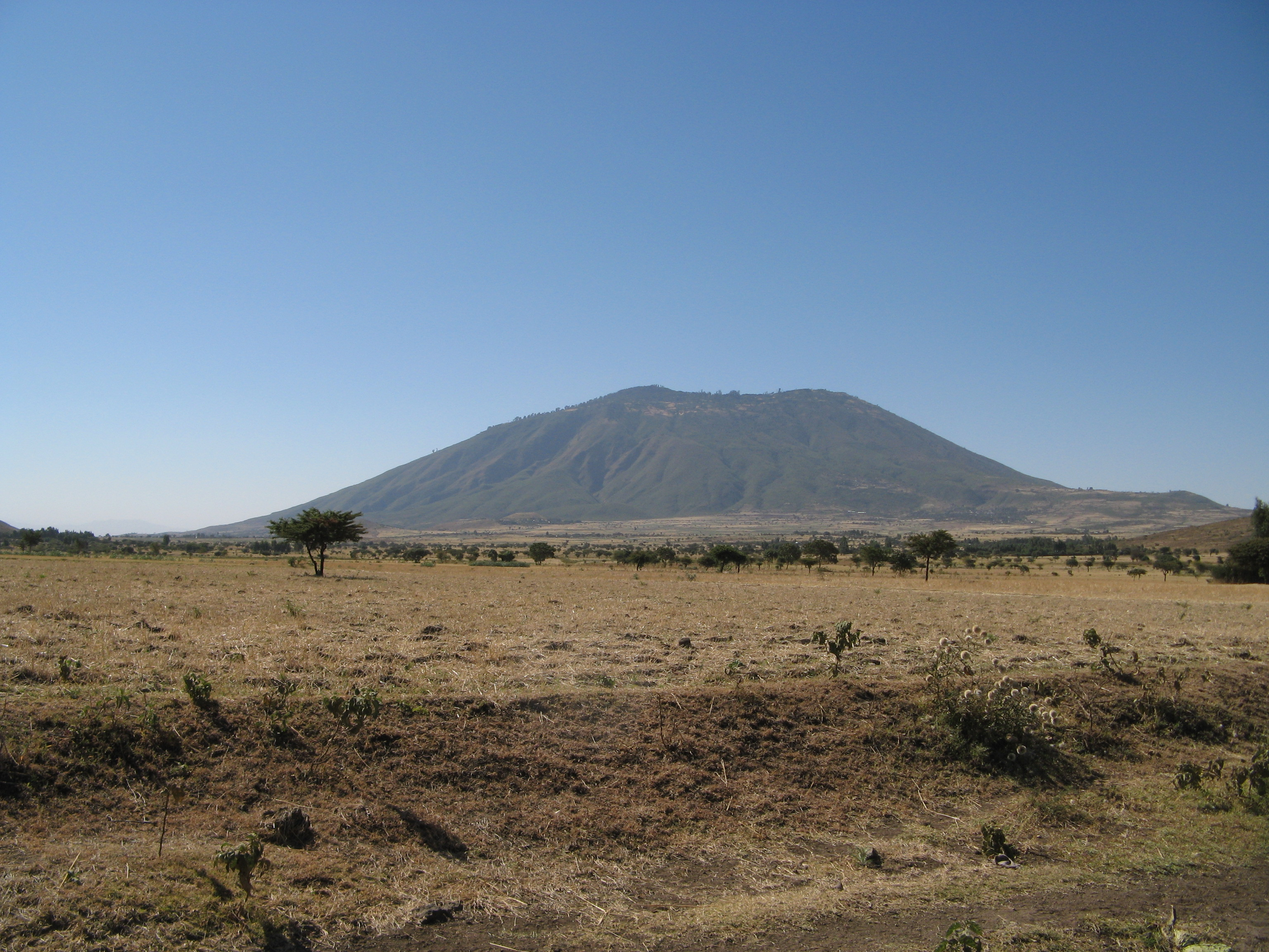 Mount Zuqualla, Ethiopia near Addis Ababa